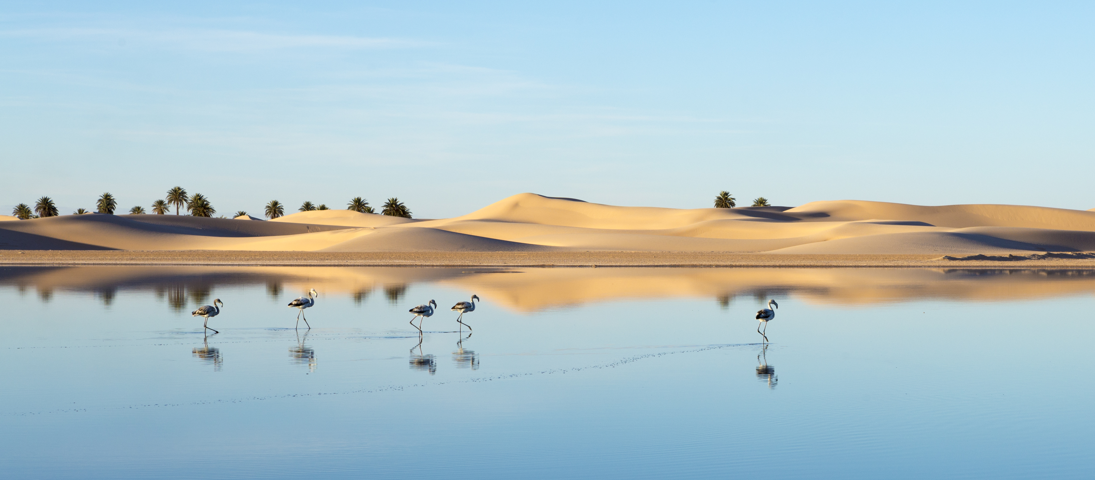 Flamingo Shine Her Beauty in Desert in lake Oume Elraneb ouargla just let ur heart feel